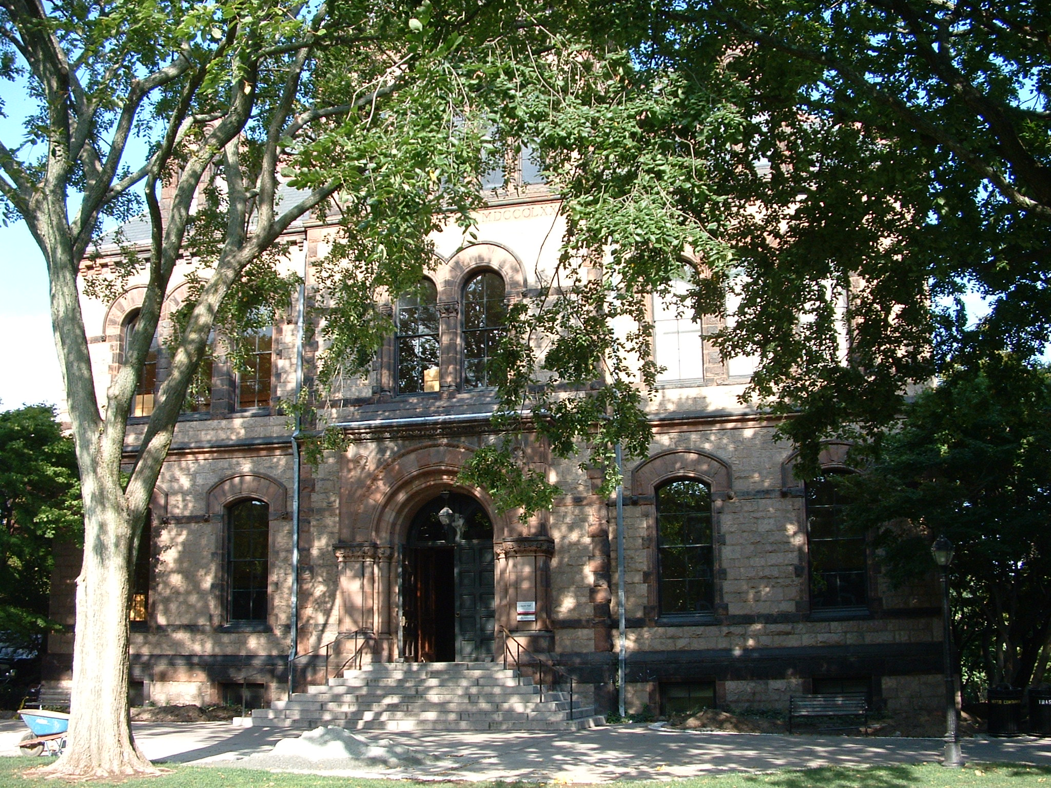 Brown University - Sayles Hall